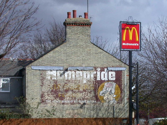 Old Homepride advertisement, Newmarket Road. THE HOME BAKER IS THE HOMEMAKER is the catch line at the bottom, and there are some illegible words in the middle, perhaps IS THE BEST (or FINEST?) FLOUR. It may date from the time when the 746949 next door was a grocer's shop, and almost certainly pre-dates Homepride's Flour-graders which appeared in 1965. It is certainly nothing to do with McDonald's!